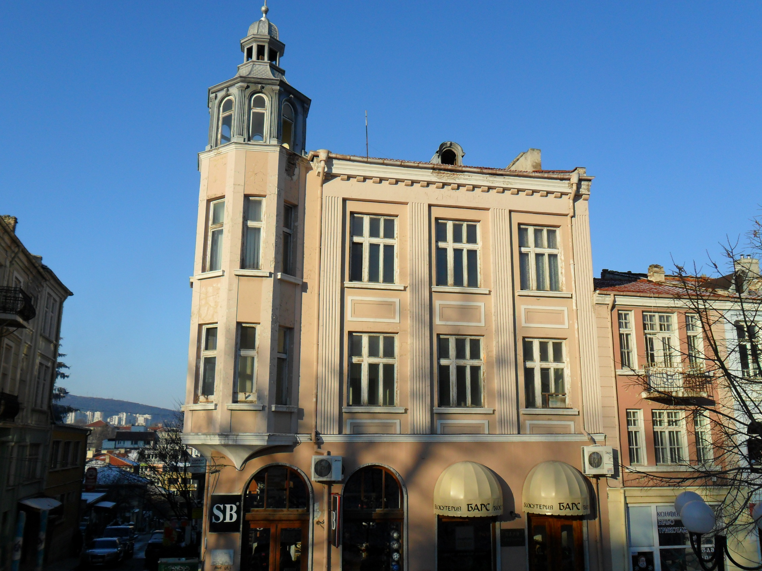 The house in Shumen, where lived Vladimir Zaimov in 1934-1935